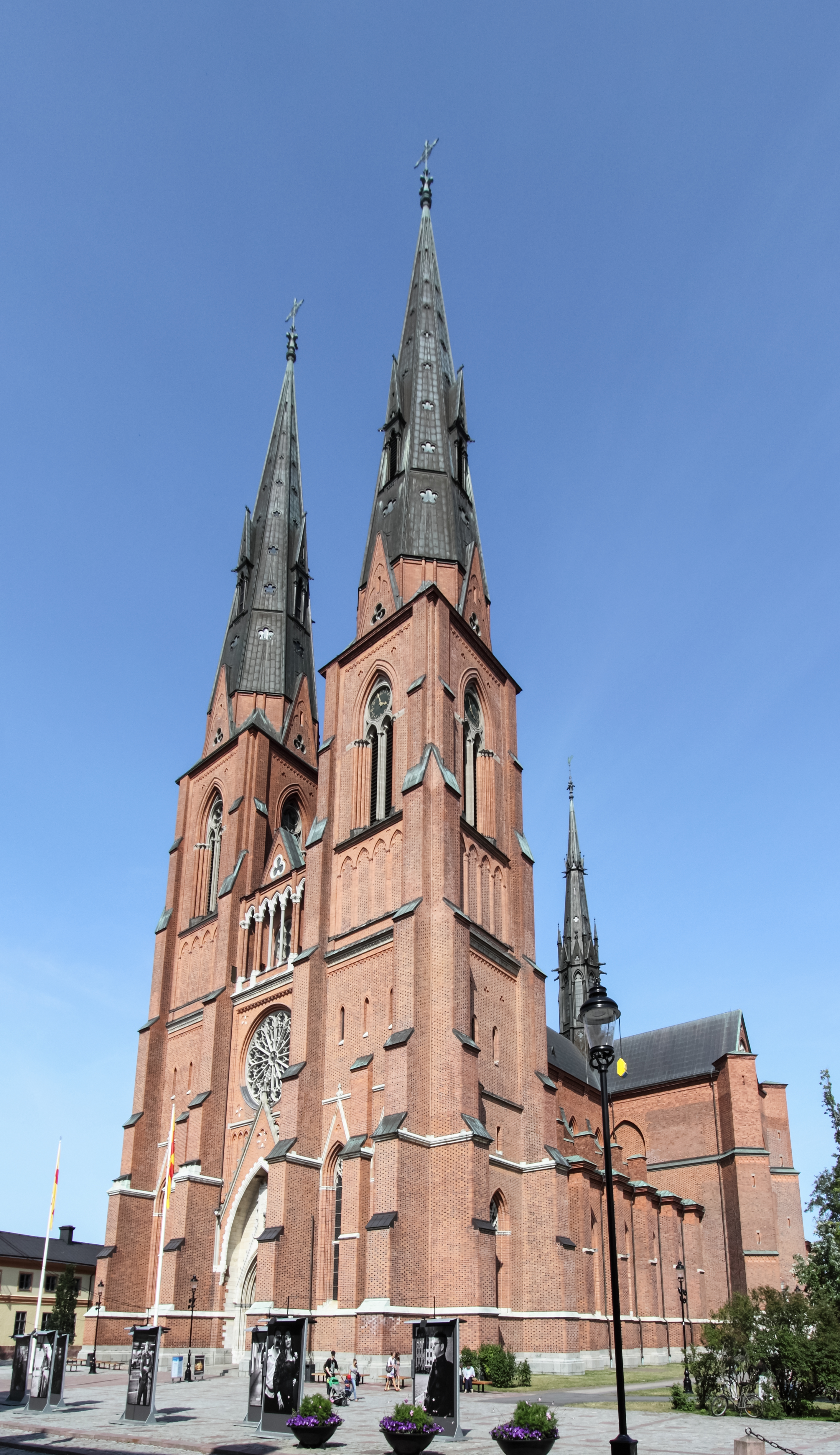 Uppsala cathedral